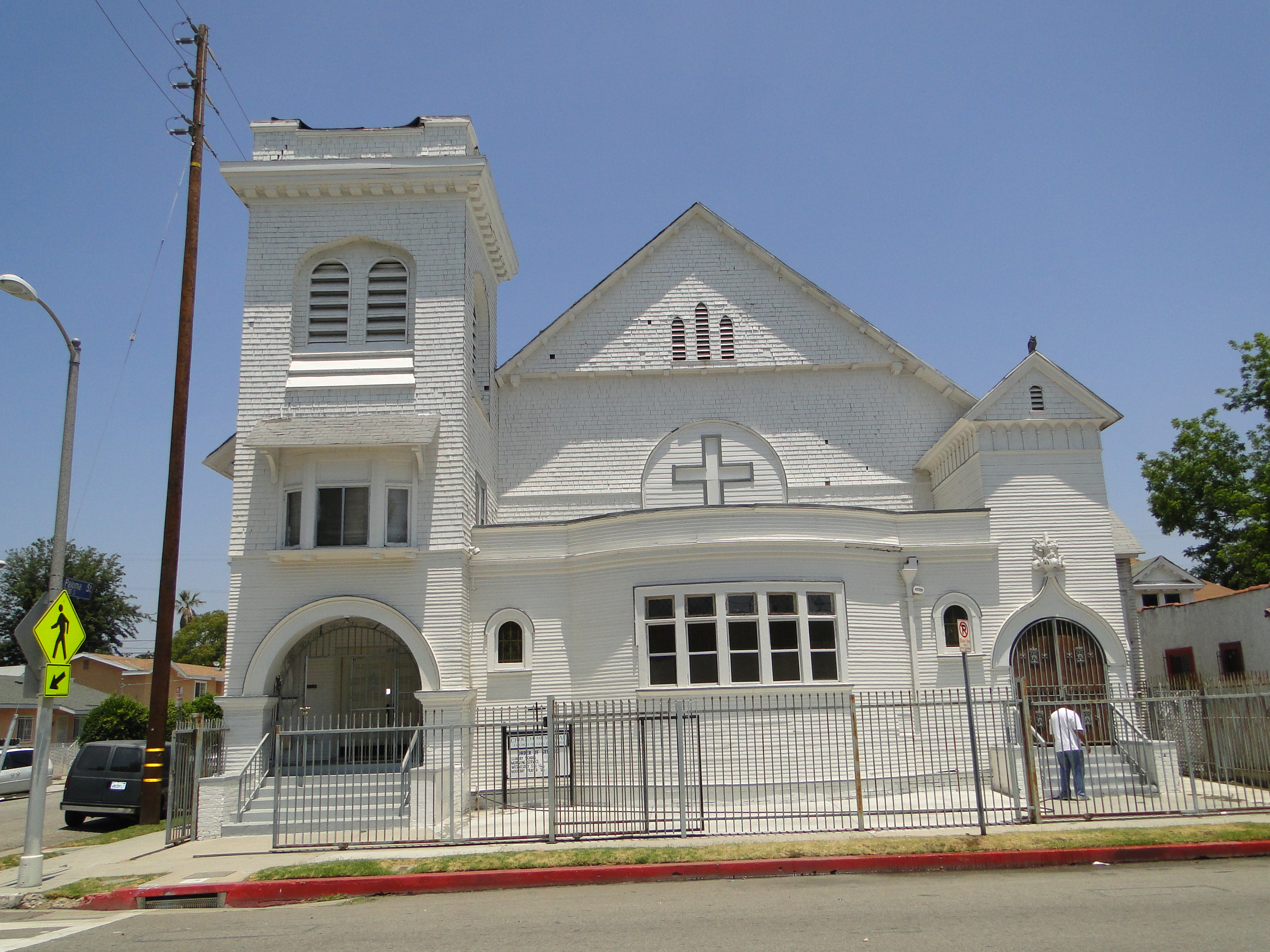 Crouch Memorial Church (formerly Beth Eden Baptist Temple) in 27th Street Historic District, 1001 E. 27th Street, Los Angeles, California. Listed in National Register of Historic Places